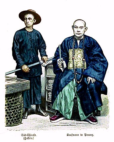 A Fukianese man and a Chinese merchant in Malaysia